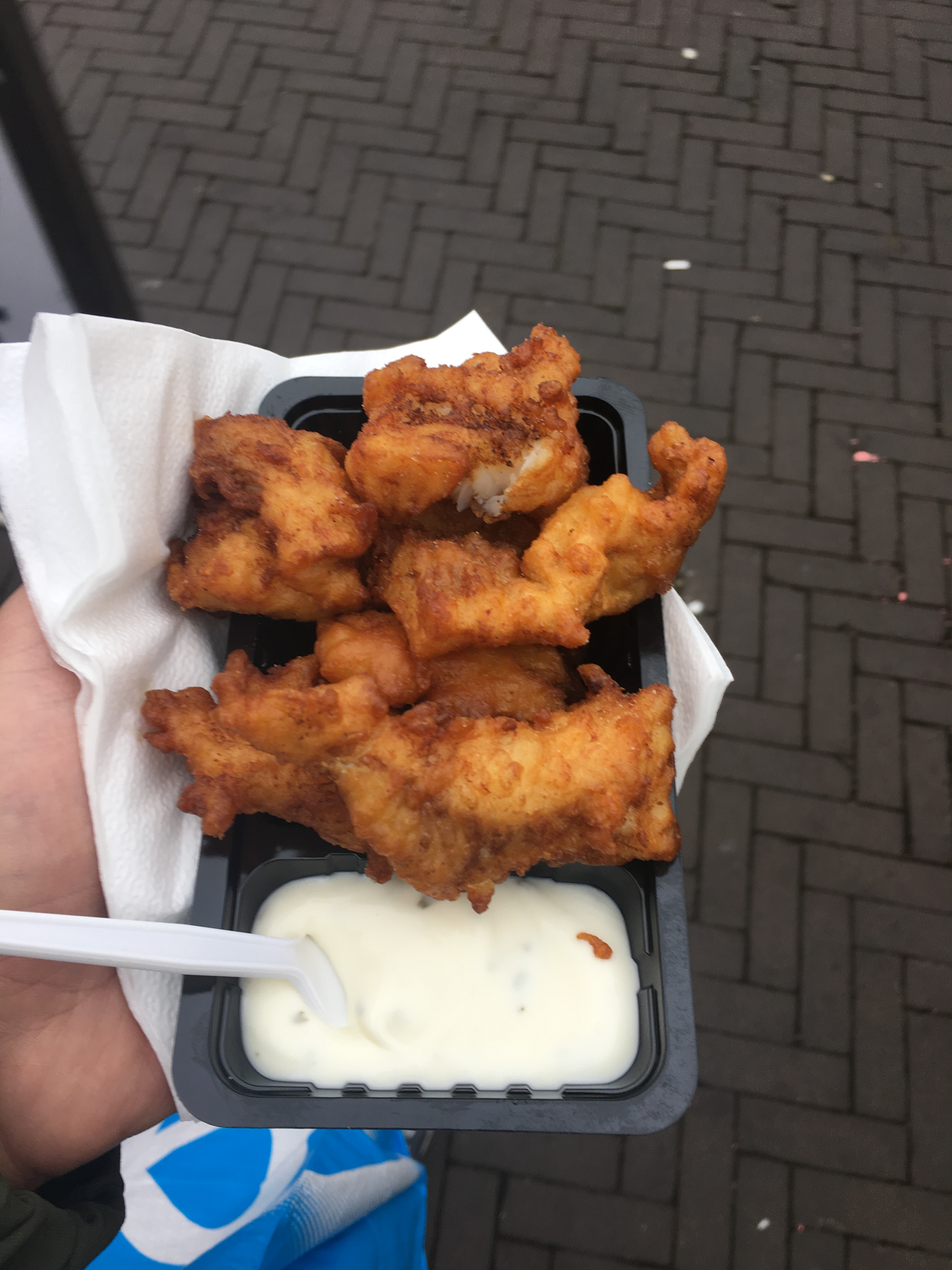 Typical portion of fried kibbelling from a market stall in the Dutch town of Hoofddorp.